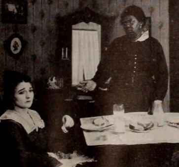 Still from the American drama film The Last Rebel (1918) with Belle Bennett and Lucretia Harris, on page 17 of the June 15, 1918 Exhibitors Herald.